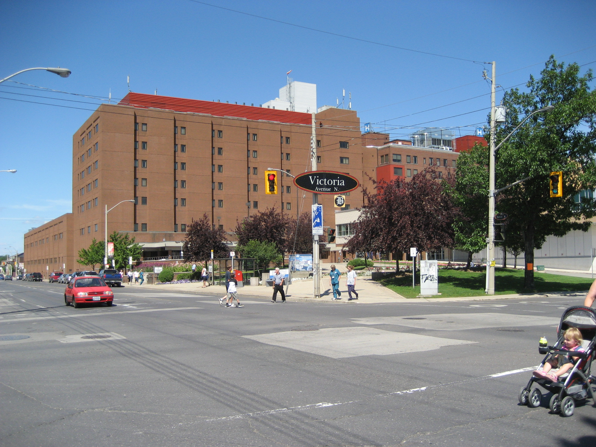 General Hospital, corner of Victoria Avenue and Barton Streets, Hamilton, Canada.